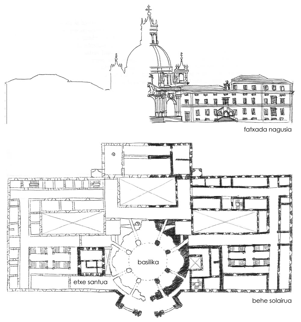 Main Elevation and Ground Floor Plan of the Sanctuary of Loiola, Azpeitia, Guipuscoa, Basque Country